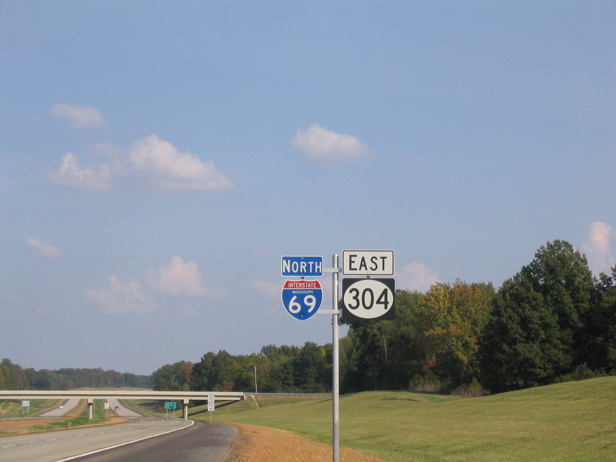 Taken east of the MS 301 interchange by G. Clark.